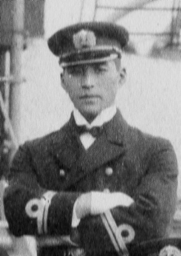 Rear Admiral Yuji Yamamoto